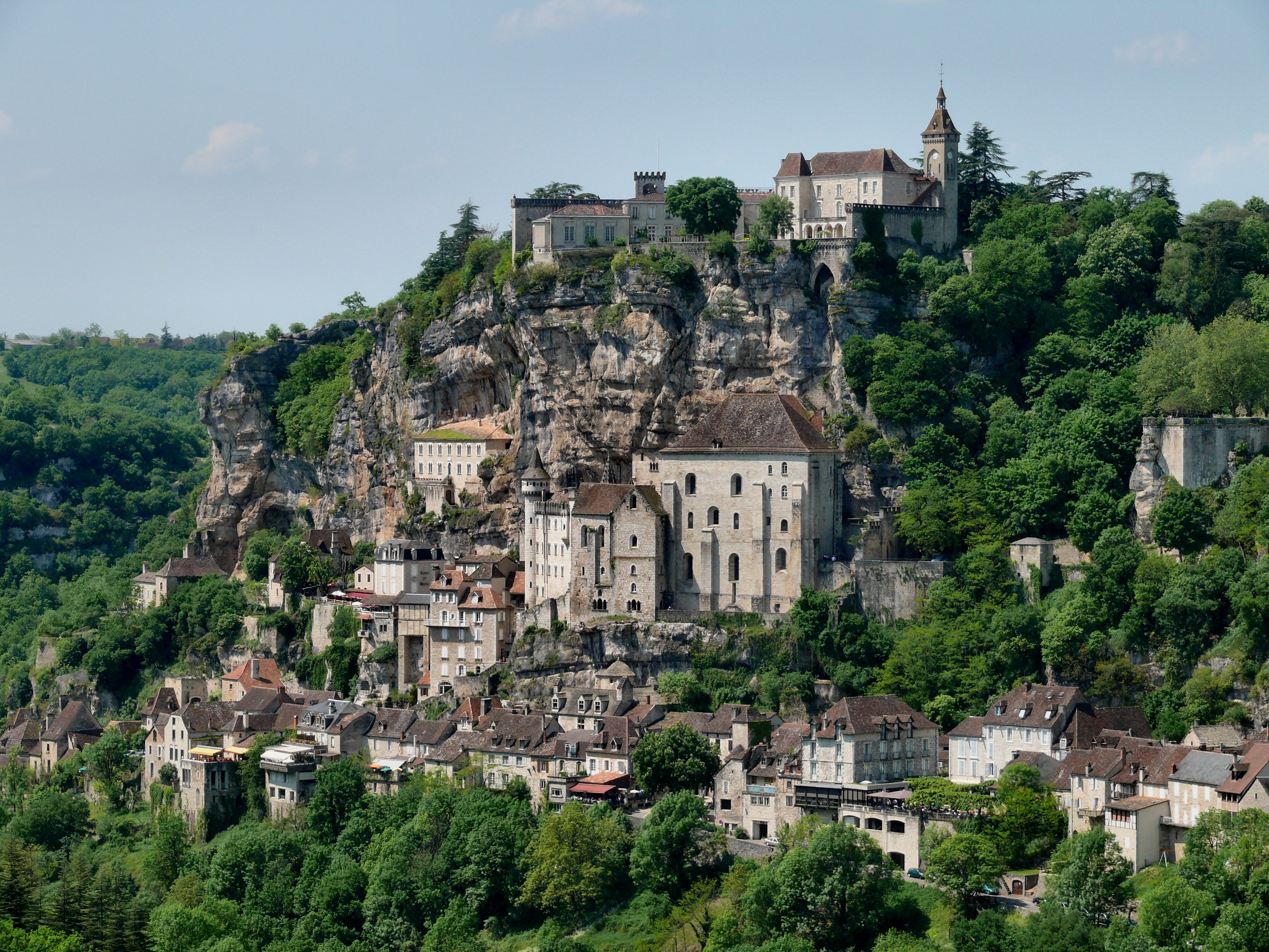 Rocamadour, was built on a rock wall at a point where the mummified body of an old hermit was discovered. In the middle ages, people believed this was a miracle. Labeled one of the 300 "Most beautiful villages of France", Rocamadour is a true jewel clinging to the rock wall. Registered on UNESCO's world heritage list as a stage on the Way of St. James. Rocamadour, Lot, Midi-Pyrénées region, France, May 2008